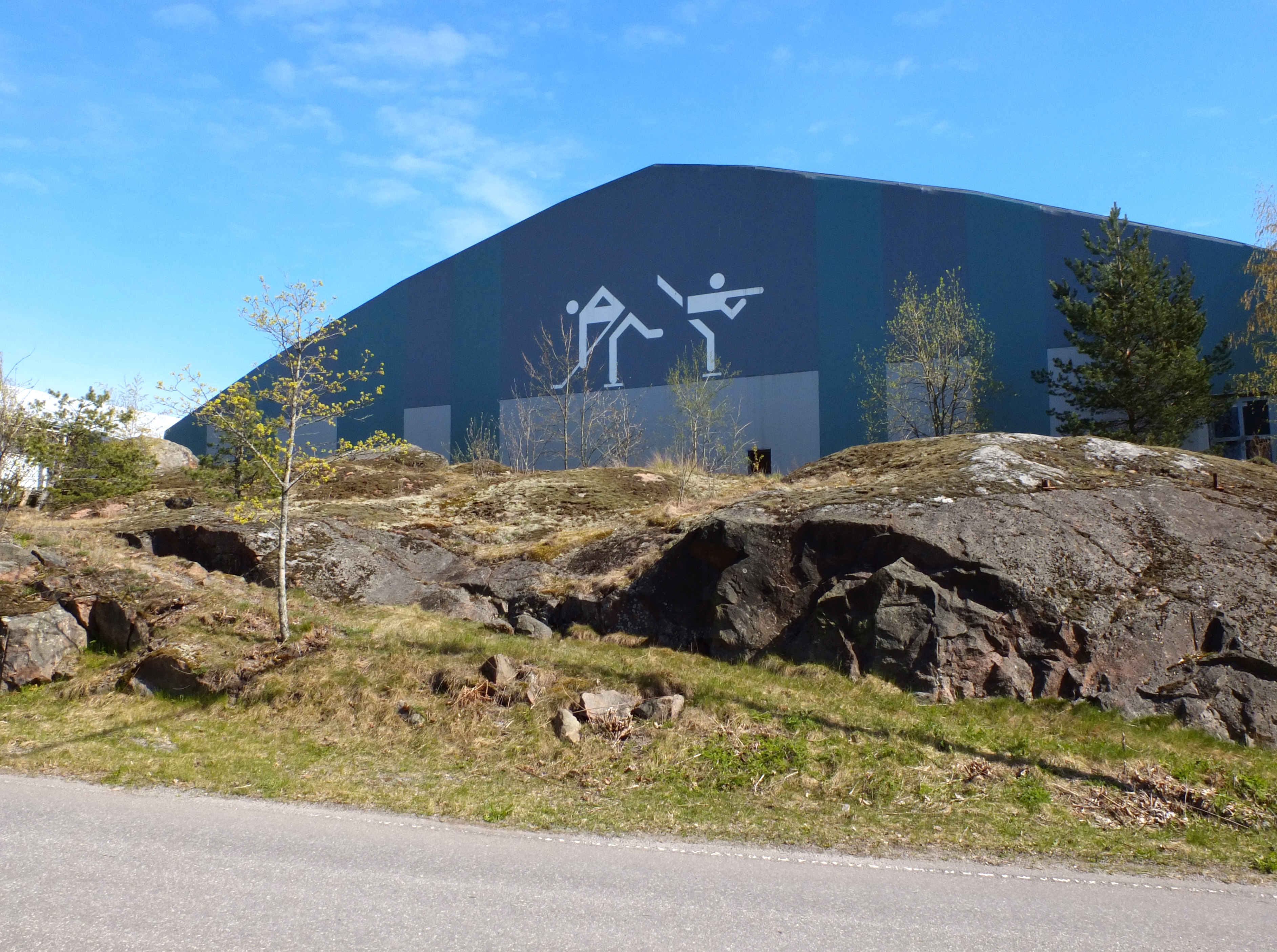 The bigger one of two ice arenas on Kuparivuori hill, Naantali, Finland.